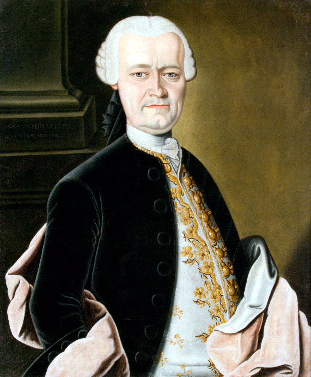 Christian Friedrich Polz also: Poltz (1714-1782) german Philosoper and protestant Theologian